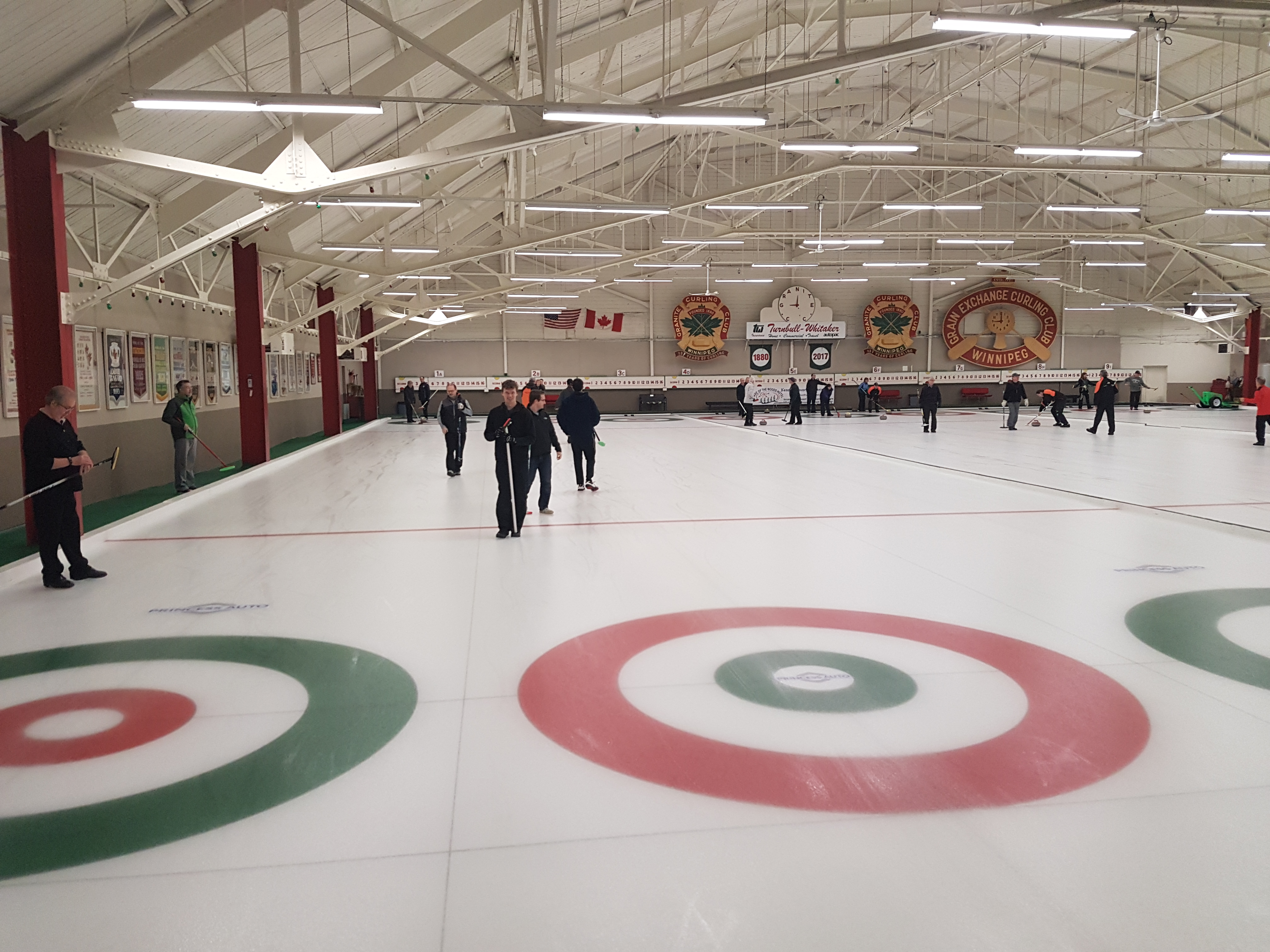 An interior picture of the Granite Curling Club in Winnipeg during the annual city-wide MCA Bonspiel in 2017.